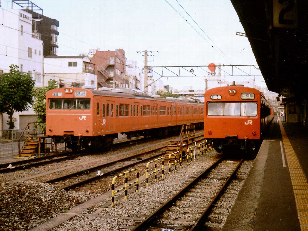 West Japan Railway Co., Katamachi Sta.